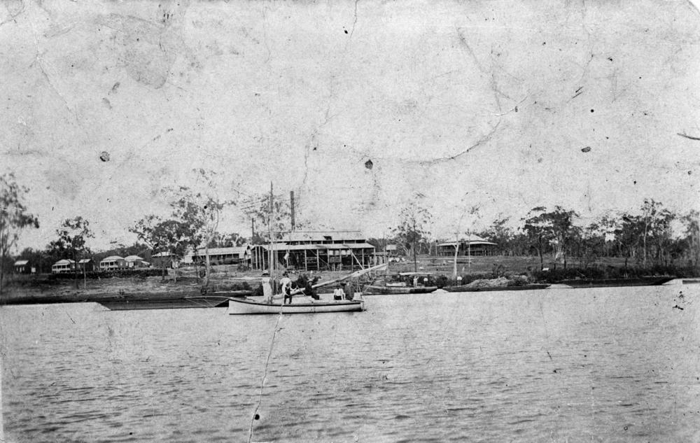 Gramzow Mill at Logan Gramzow Mill photographed from the Logan River at Carbrook. (Description supplied with photograph).